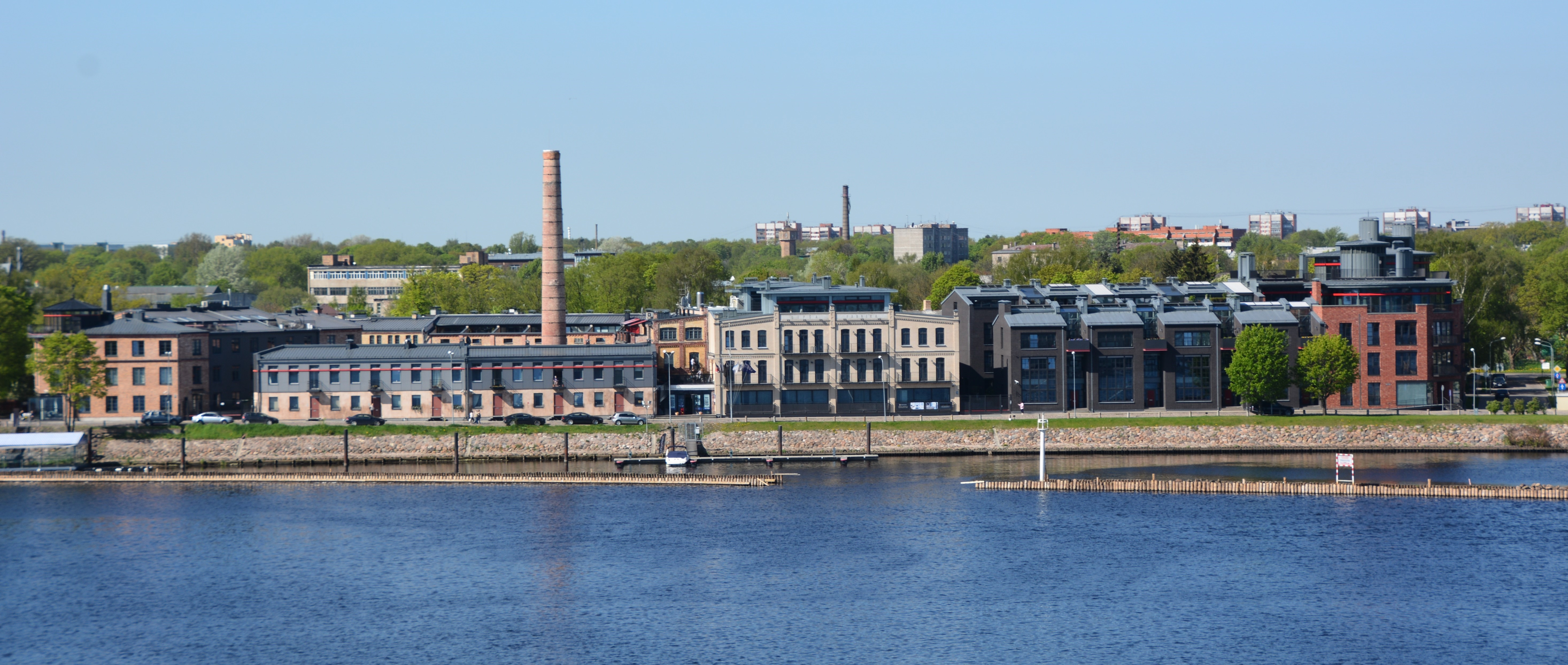 Riga Gypsum Factory, Kipsala